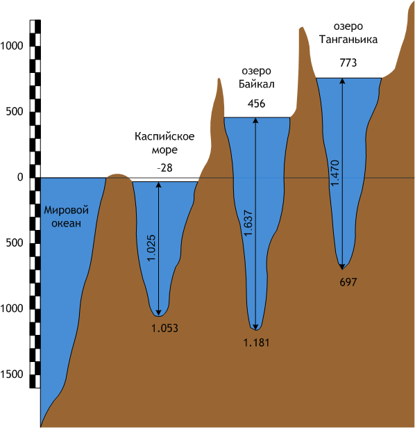 Scheme of three lakes of Earth - Caspian sea, Baikal and Tanganyika.